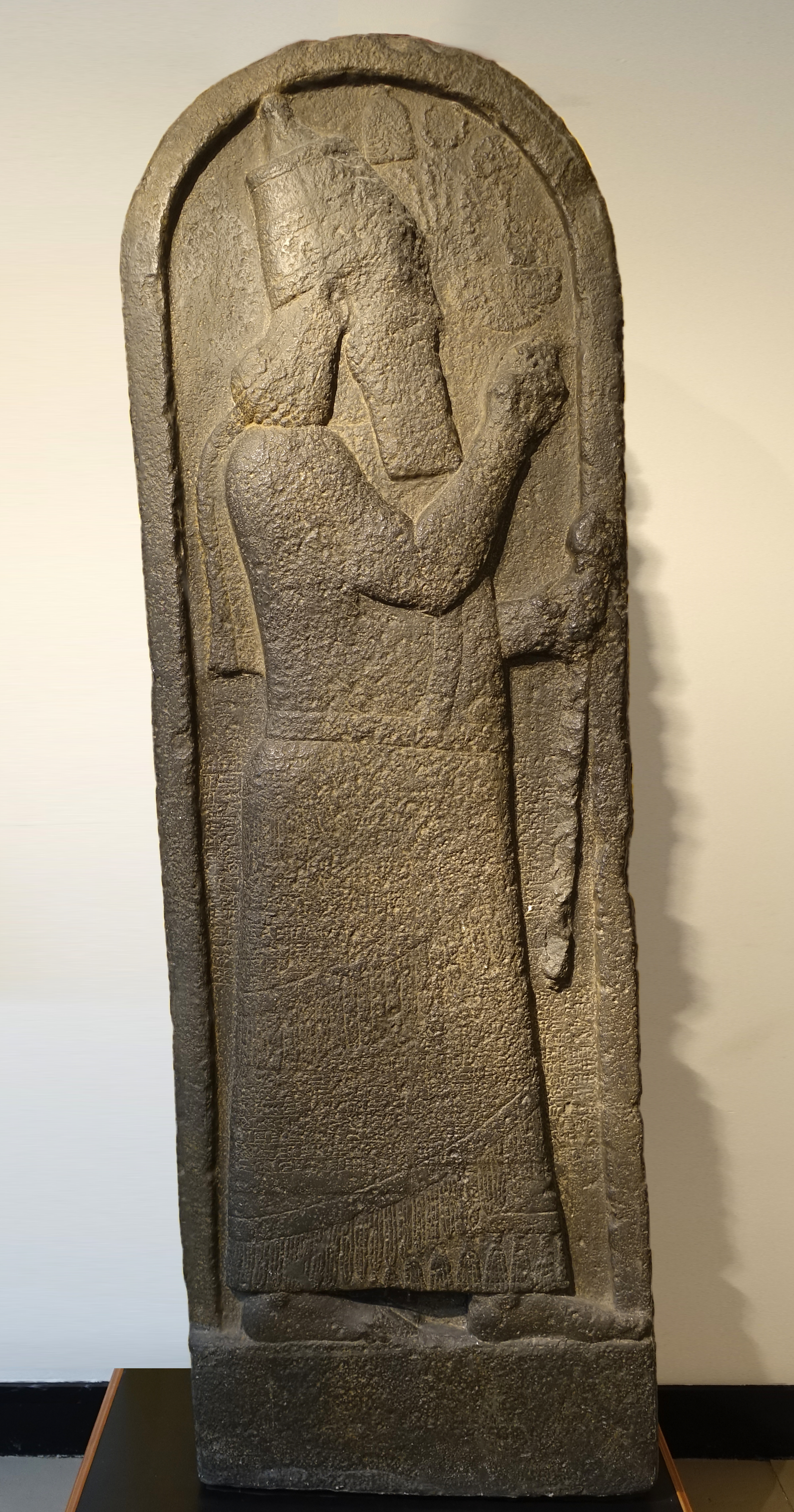 Stele of Sargon II, copy of original in the Vorderasiatisches Museum, Berlin, Larnaca, c. 707 BC, plaster cast - Harvard Semitic Museum - Cambridge, MA